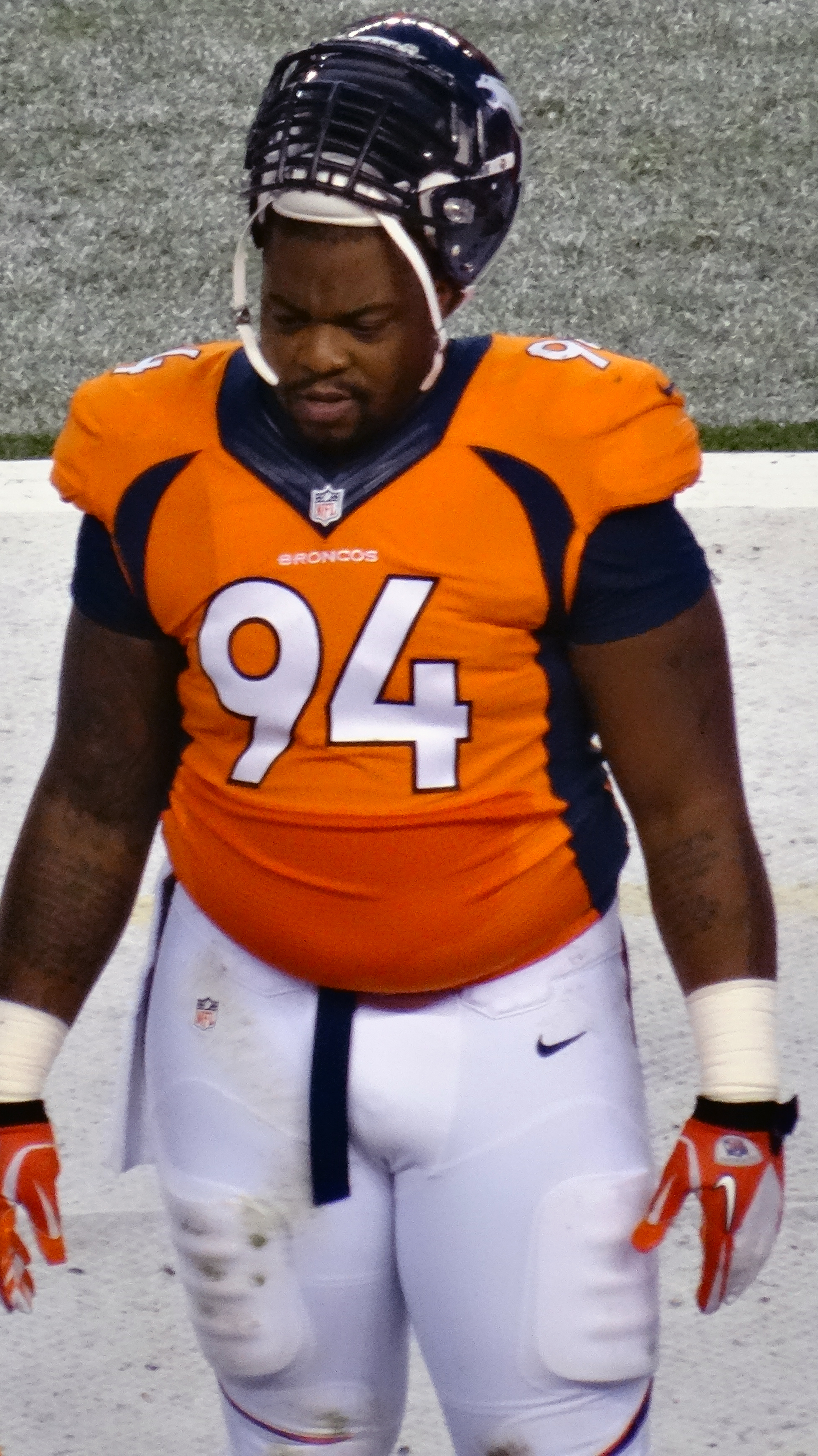 Terrance Knighton, a National Football League player.